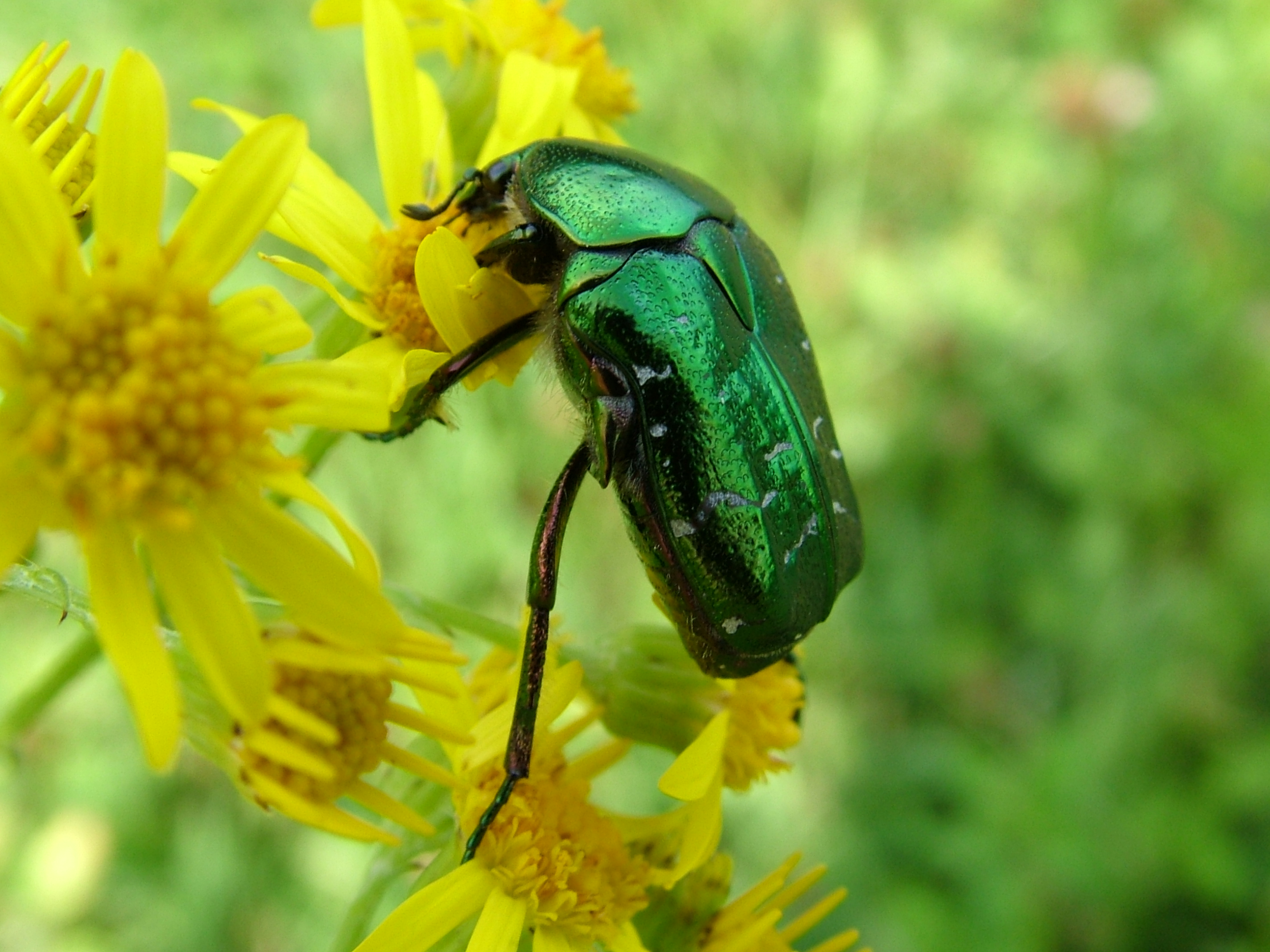 A foraging cetonia aurata